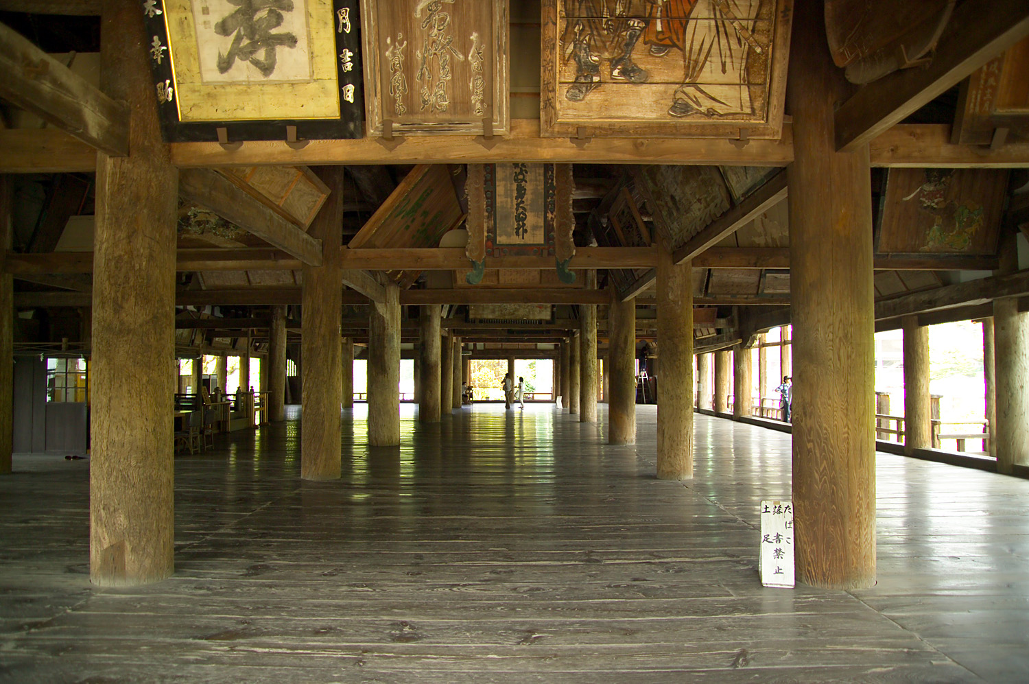 Senjōkaku, the Pavilion of a Thousand Tatami. Miyajima, Hiroshima Prefecture, Japan. The scale befits Toyotomi Hideyoshi, who ordered its construction. I took this photo and contribute my rights in the file to the public domain; people and organizations retain rights to images in it.